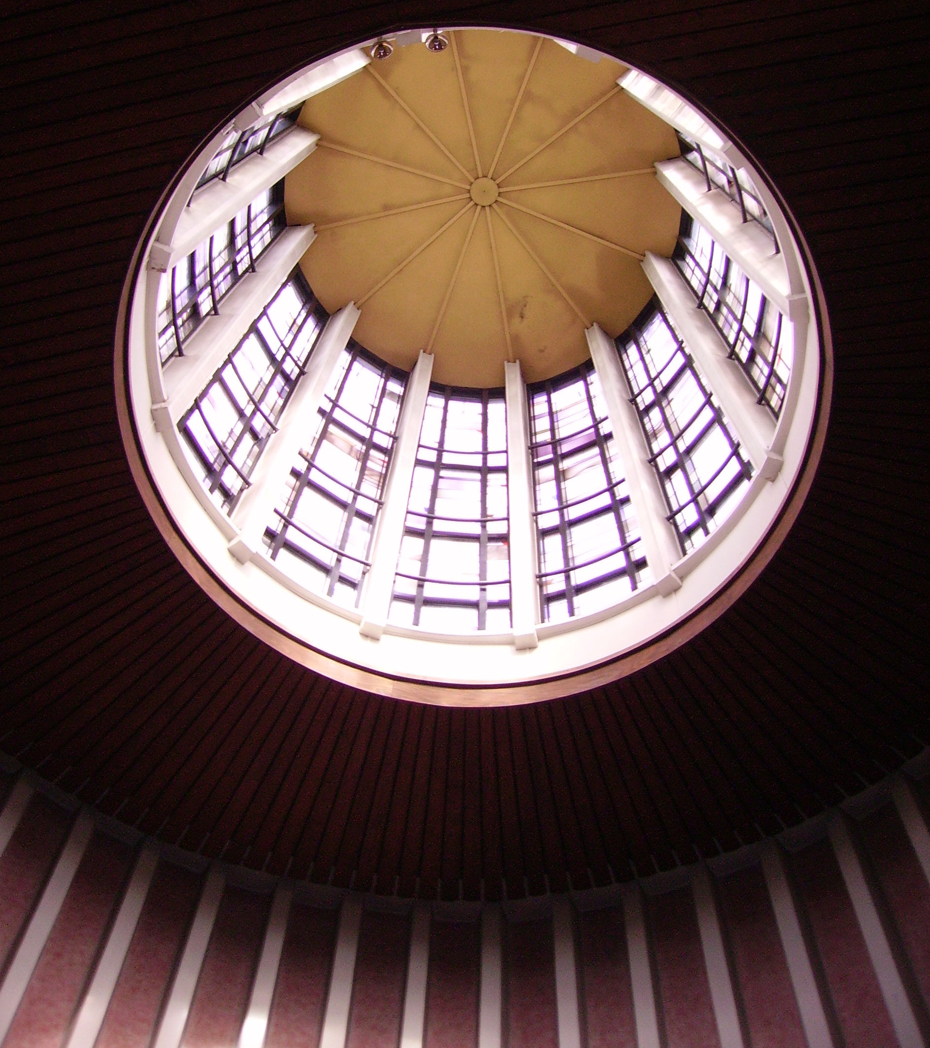 view of Limburgerhof, Germany